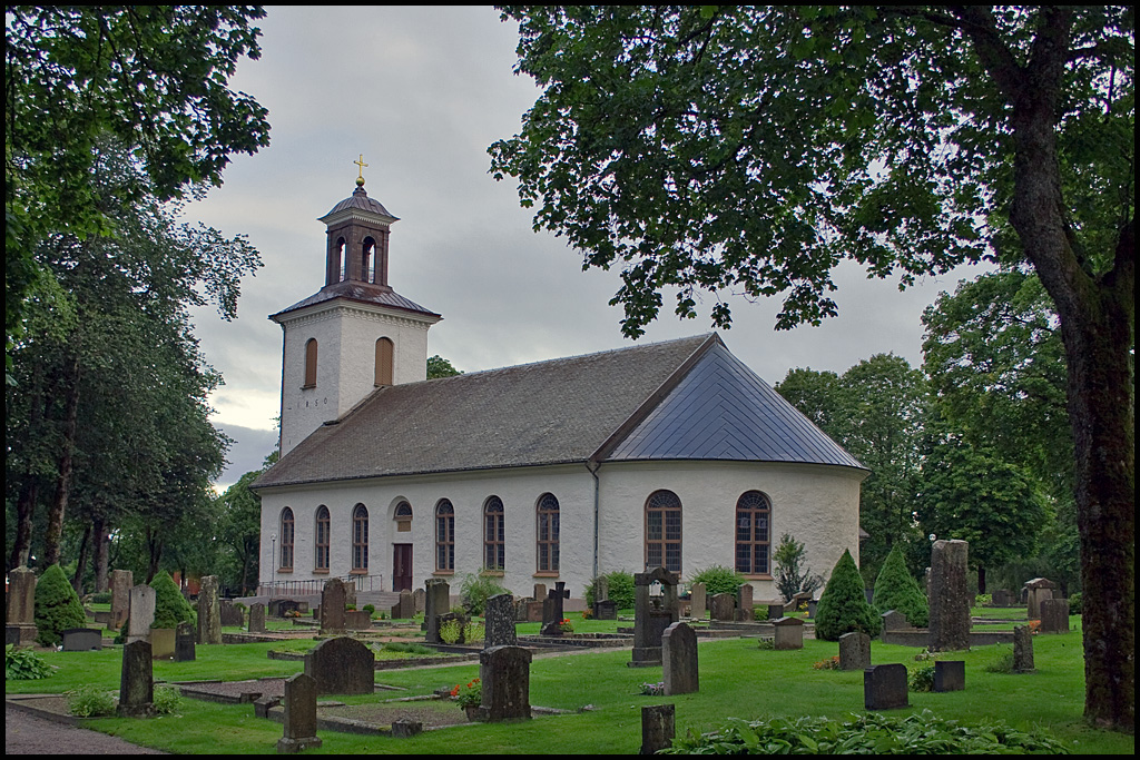 Fristads Kyrka